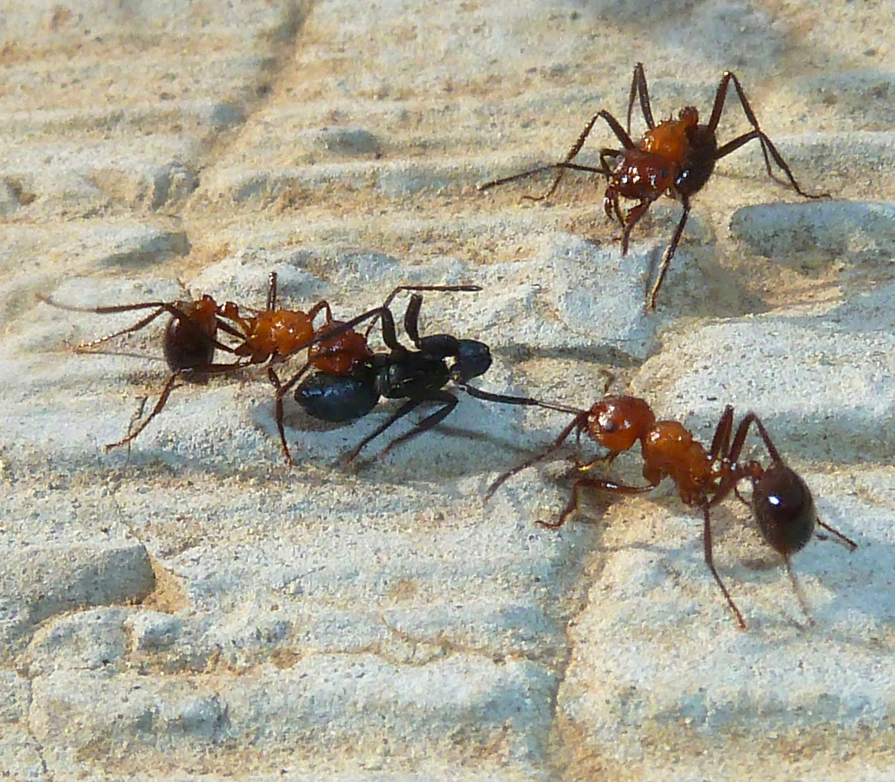 Three Natal droptail ant workers attending to a Eugene's long-legged sugar ant (Camponotus eugeniae) that they caught in Jimmy Aves Park, Pretoria. The combination of their colour, two-node petiole and hanging gaster is distinctive.